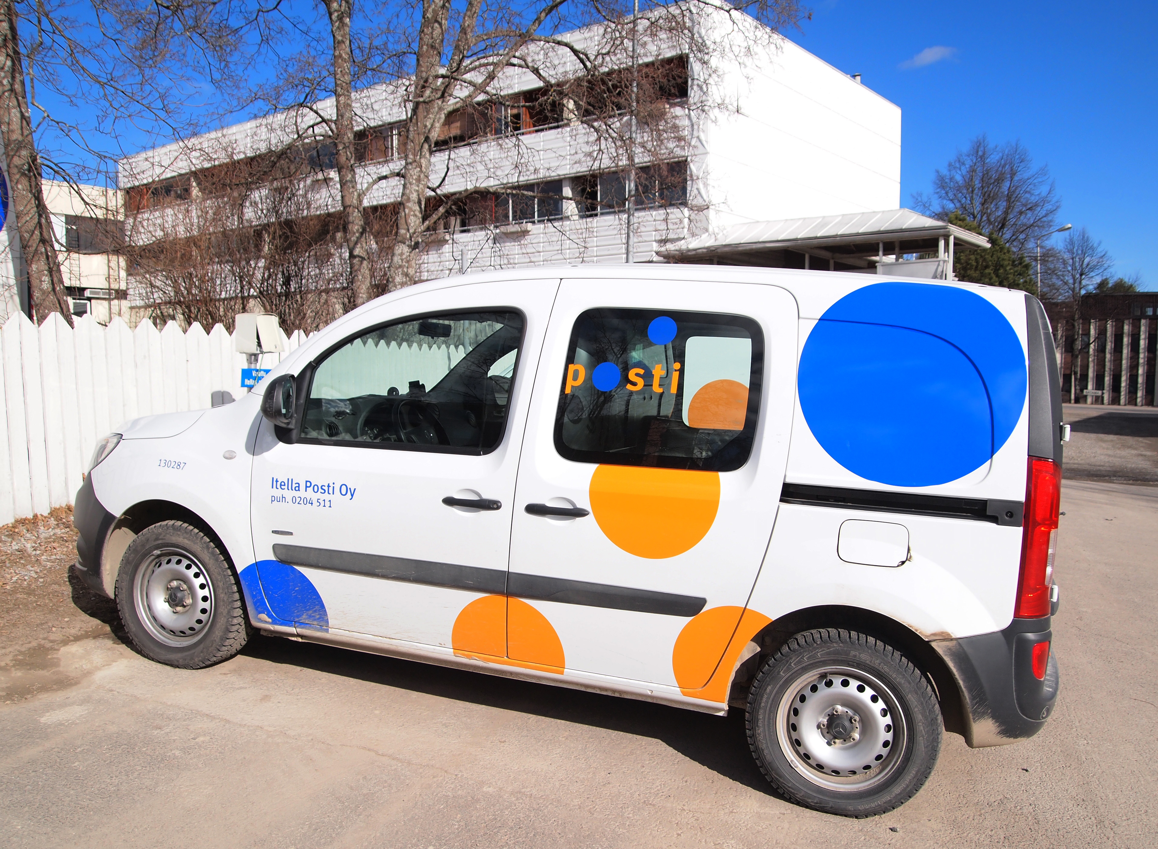 Car of Itella company in Laukaa. This photograph was taken with an Olympus E-PL1